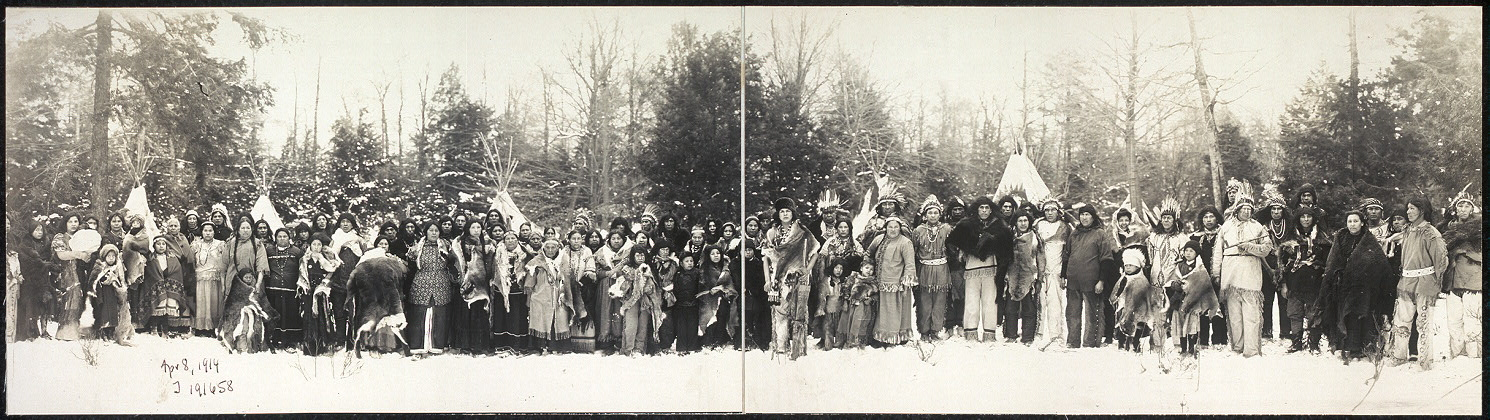 1914 - Buffalo New York, Panoramic View of Iroquois.CREDIT: "Iroquois Indians." c1914. William Alexander Drennan, copyright claimant, 1914. Taking the Long View: Panoramic Photographs, 1851-1991, Library of Congress.